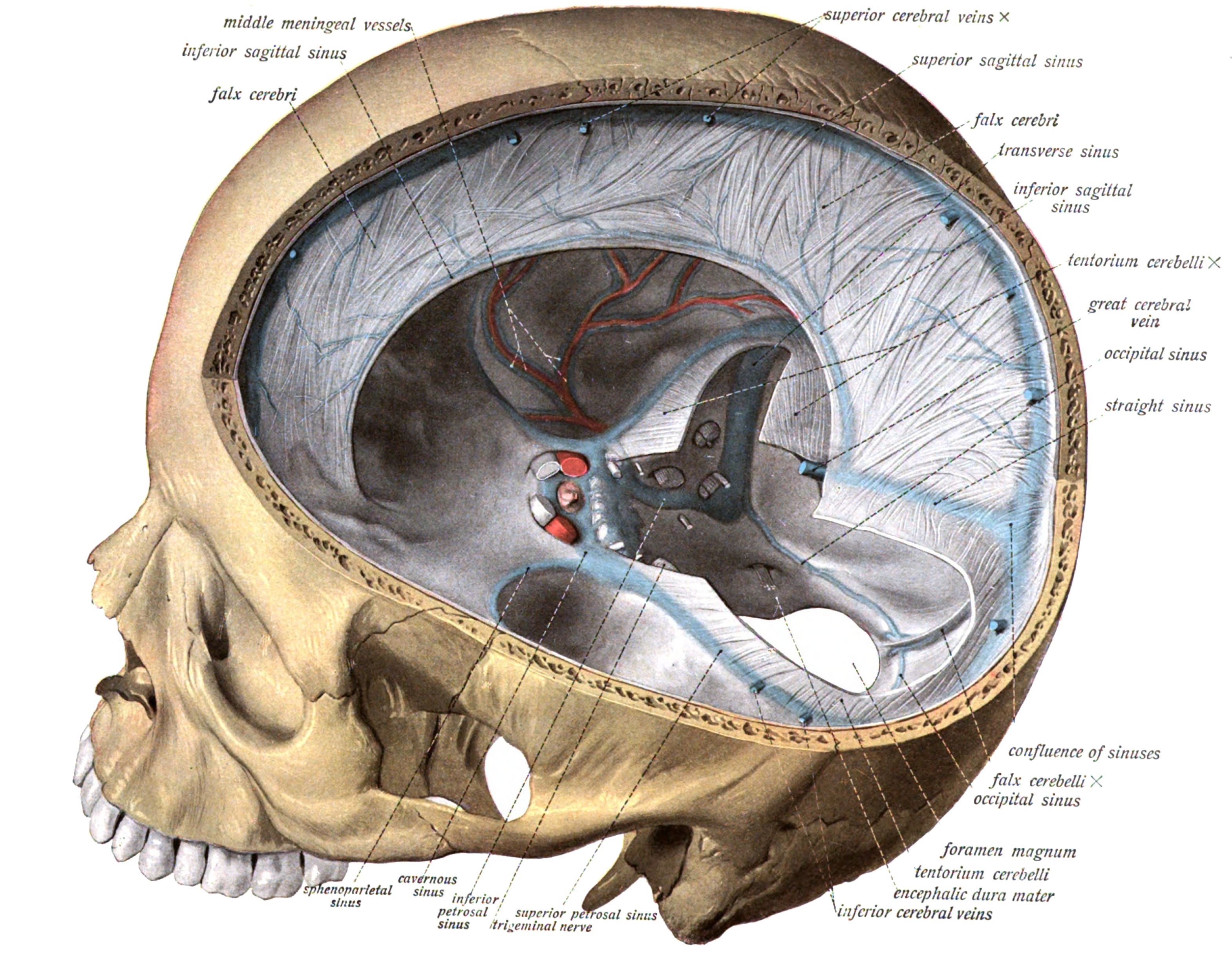 An anatomical illustration from Sobotta's Human Anatomy 1908